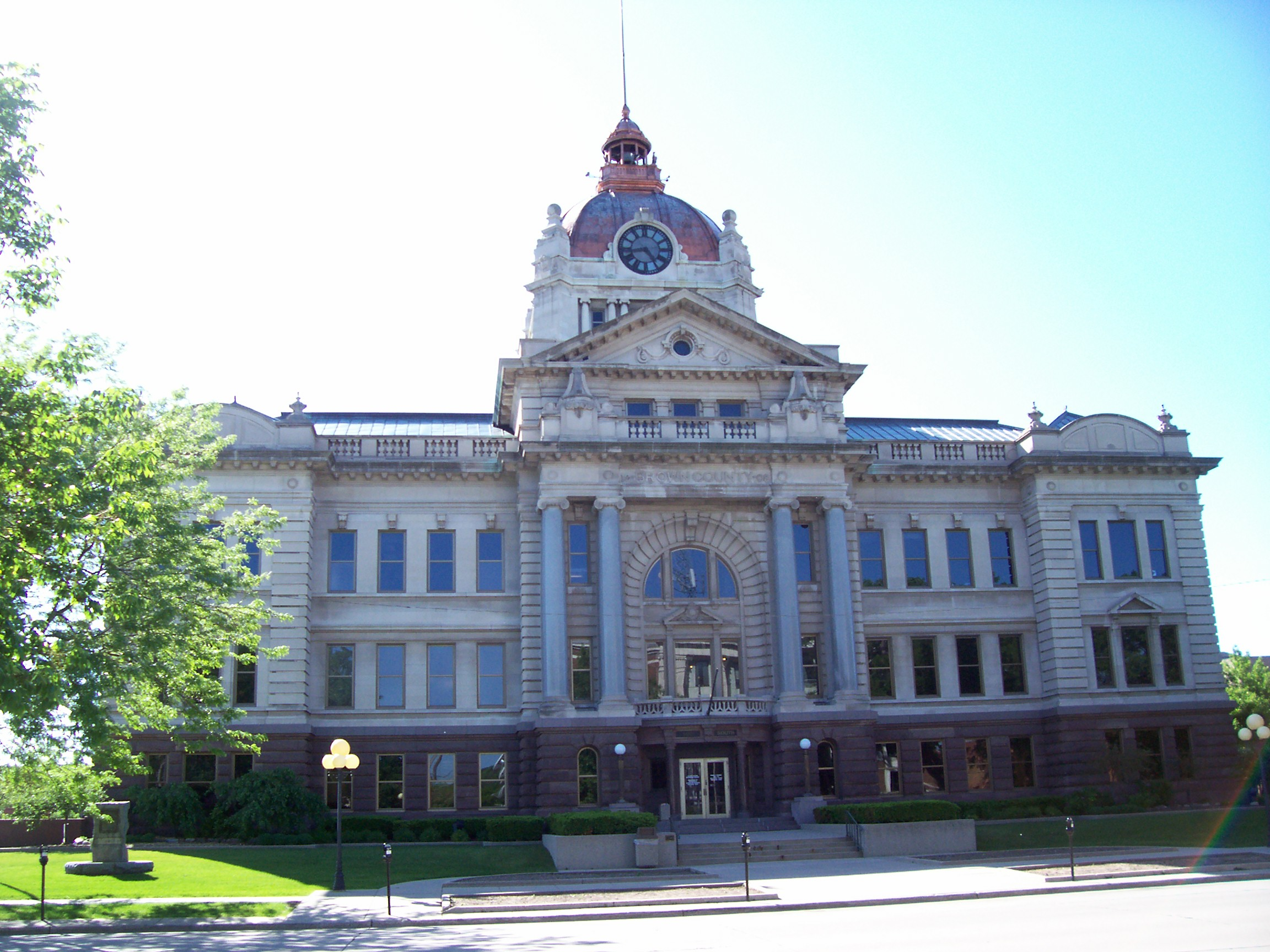 The Brown County Courthouse in Green Bay, Wisconsin in Brown County, Wisconsin USA